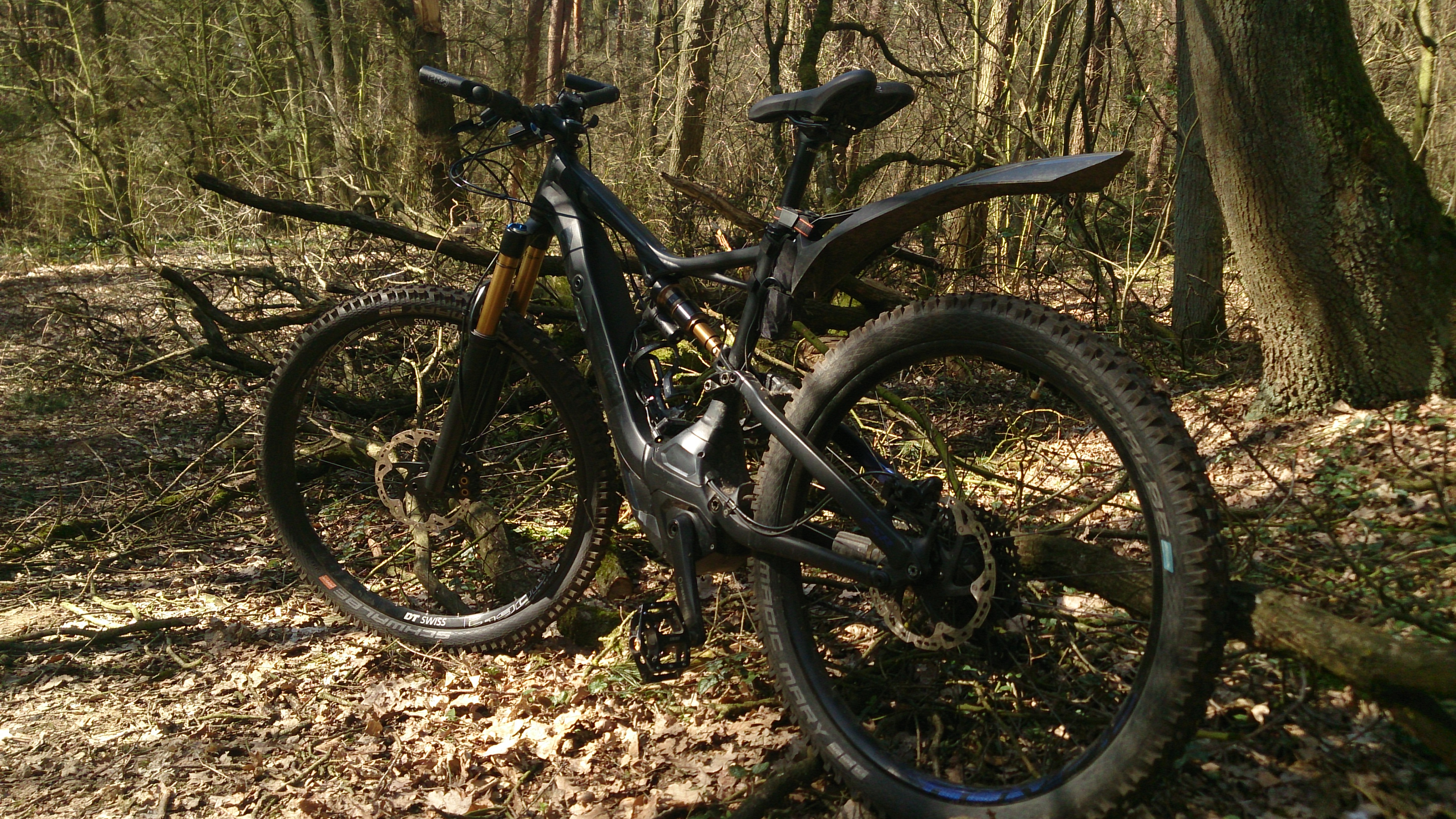 eMTB model Specialized Turbo Levo (2018) with brose motor